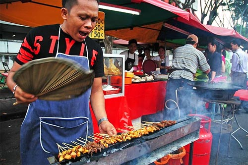 Photograph of a satay hawker in Malaysia